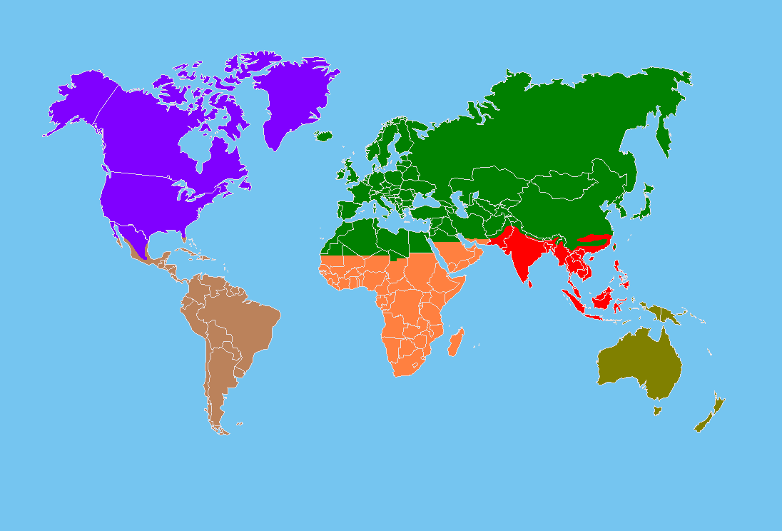 Ecozones converted from jpg to png (previously Image:Ecozones.jpg) and southern boundary of Palearctic revised. Legend: Nearctic ecozone Palearctic ecozone Afrotropic ecozone Indomalayan ecozone Australasian ecozone Neotropic ecozone Oceans; Oceania and Antarctic ecozones not shown